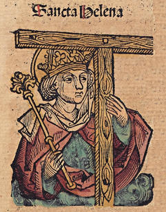 Illustration from the Nuremberg Chronicle